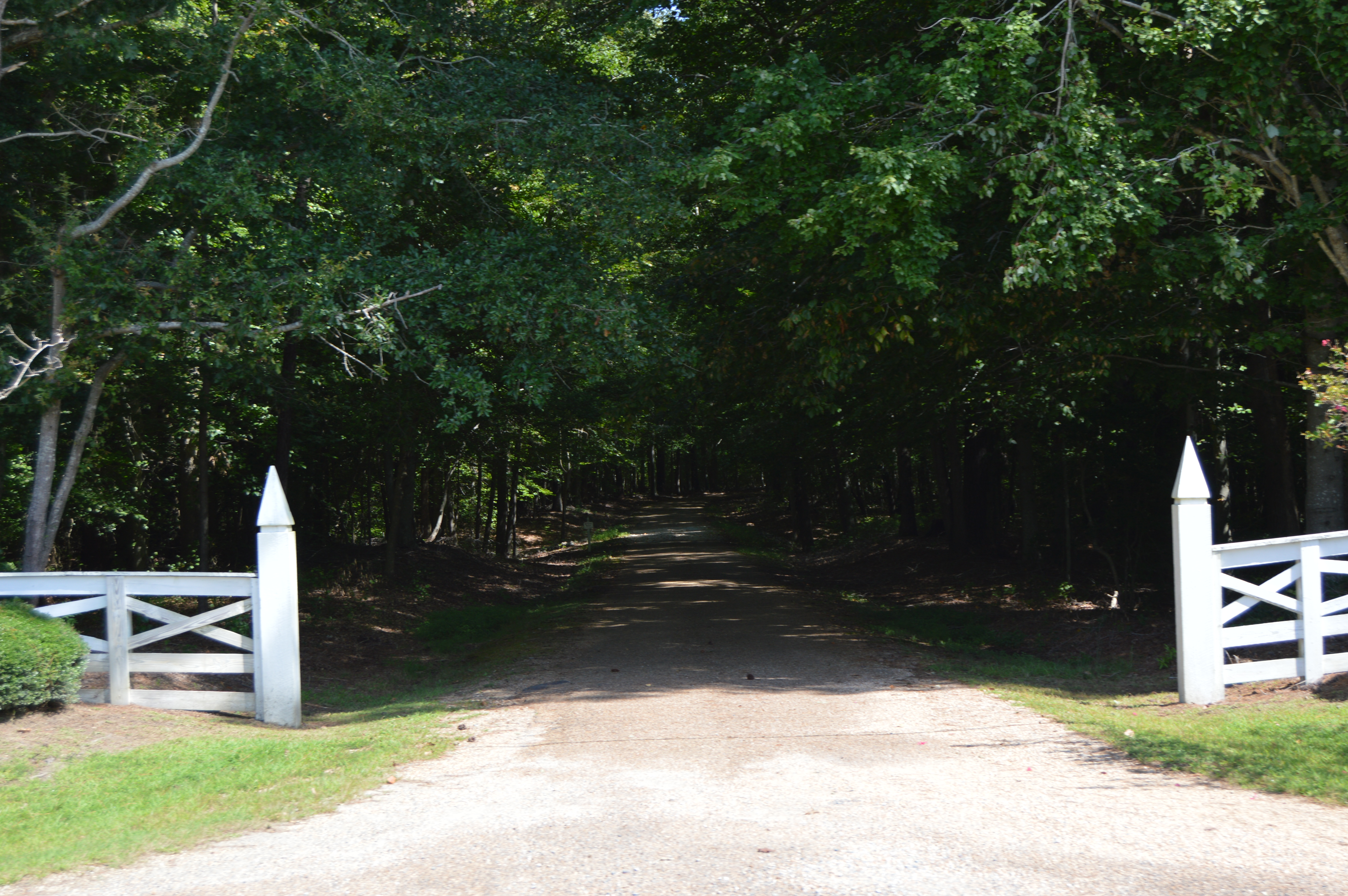 Entrance to the Hesse estate, located off State Route 198 just north of Blakes in Mathews County, Virginia, United States. The farmstead is listed on the National Register of Historic Places.